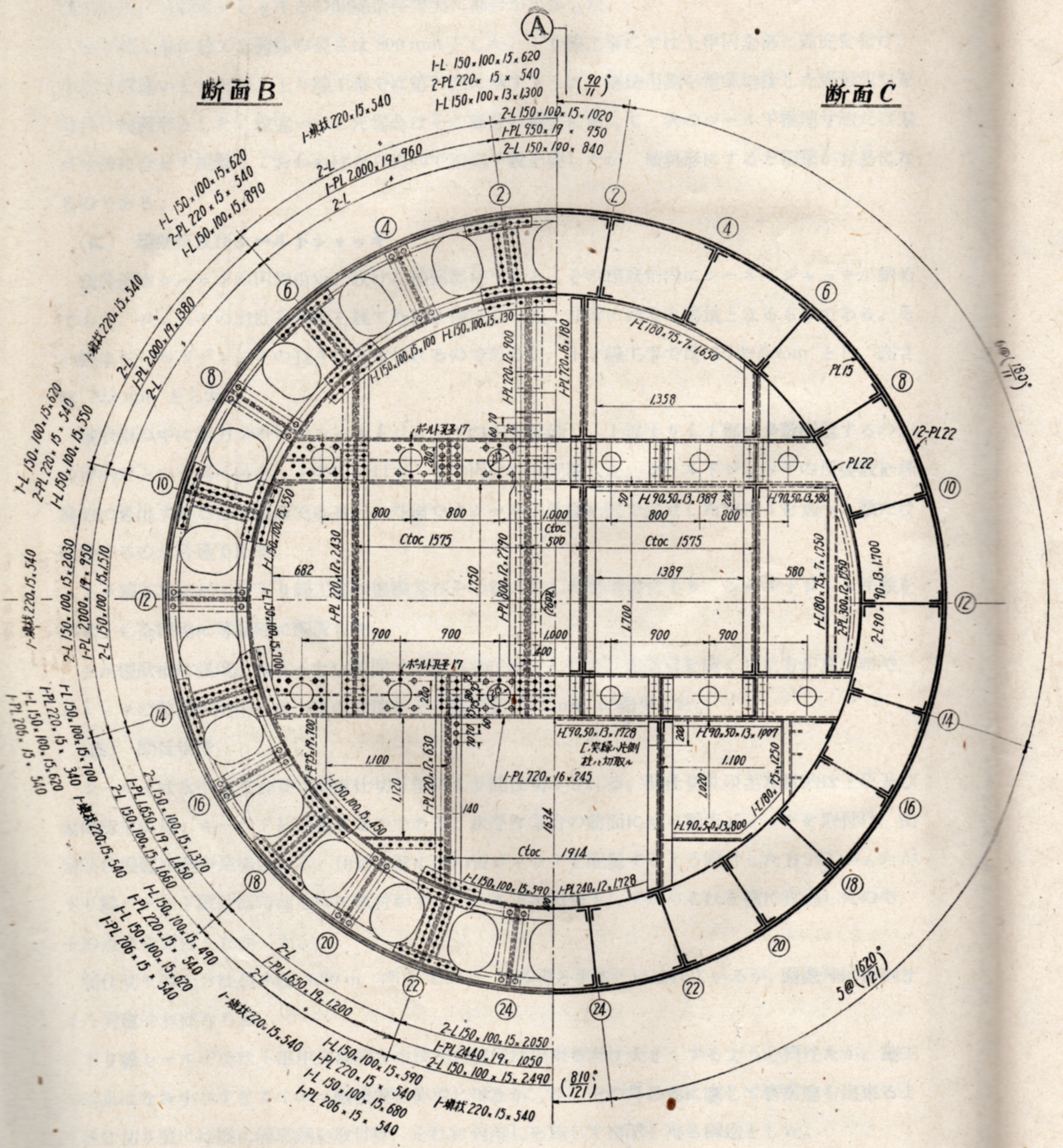 Cross sectional drawing of shield machine for Kammon railway tunnel